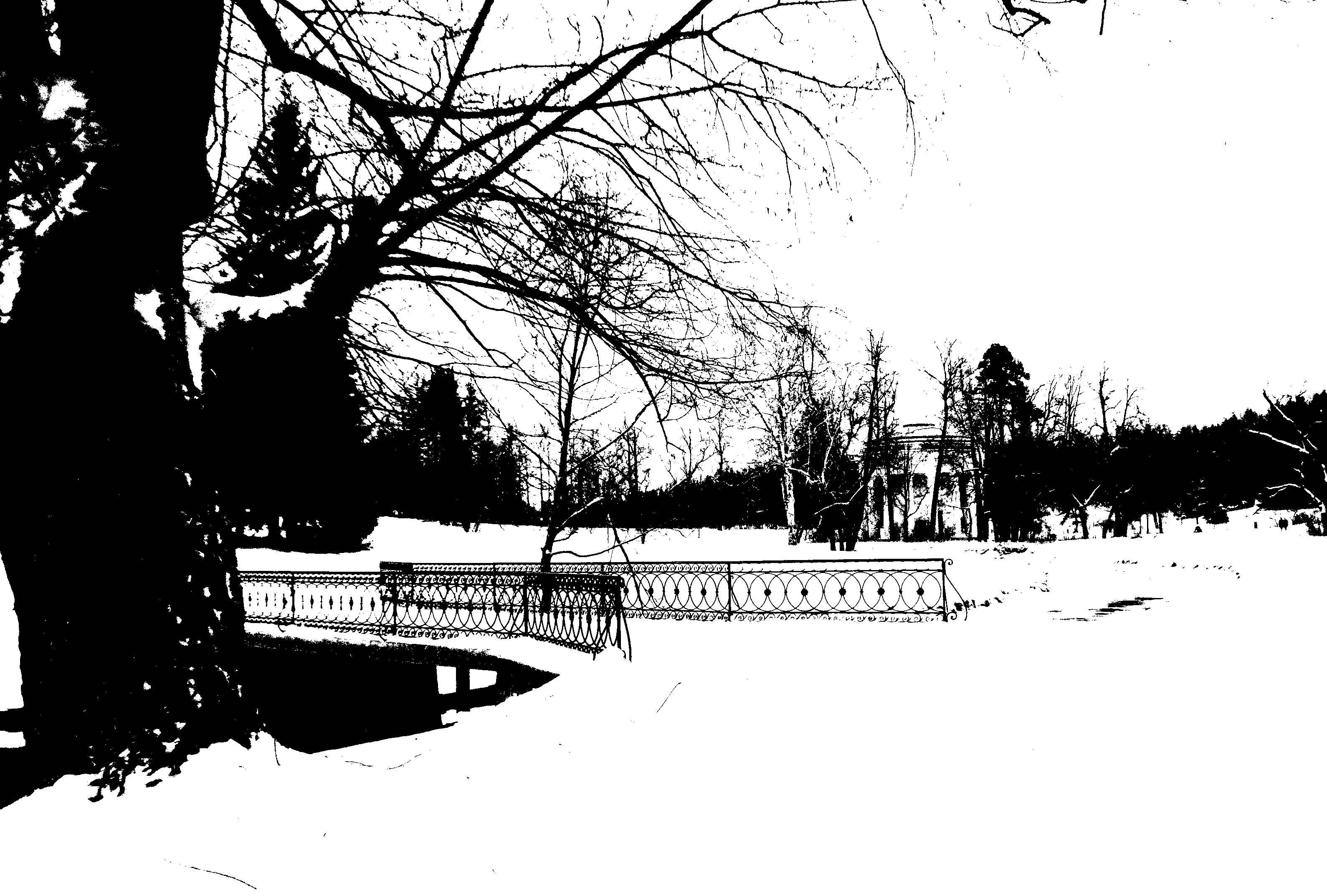 The bridge with a delicate iron-cast railing. Pavlovsk park.